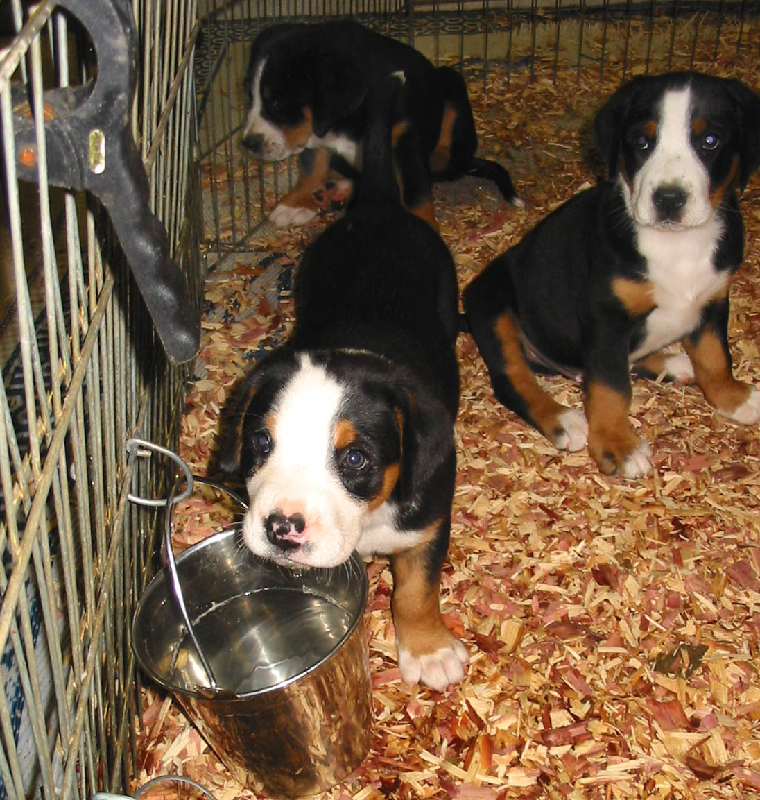 Greater Swiss Mountain Dog puppies at 6 weeks